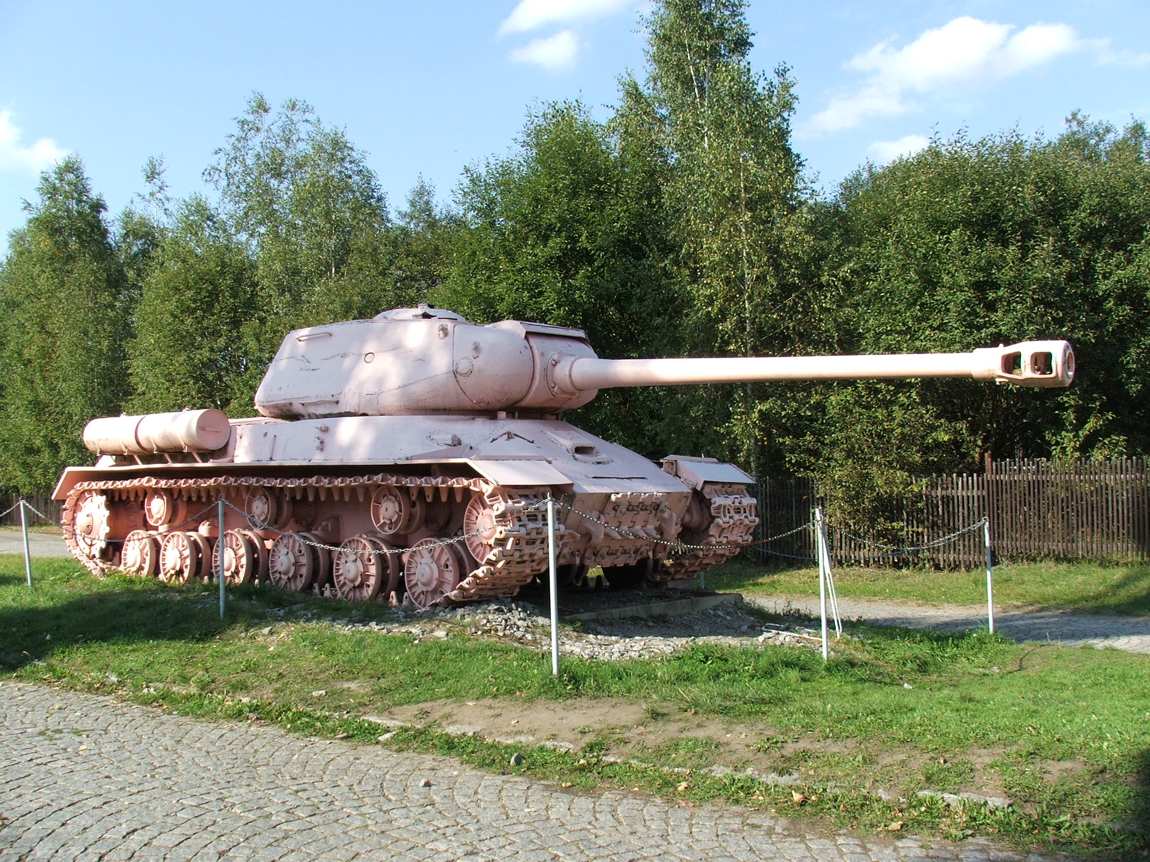 Soviet tank IS-2m painted in pink by David Černý, which was on display in Smíchov, Prague, before 1991; now Lešany Military Museum, Czechia - see Monument to Soviet tank crews for full story.